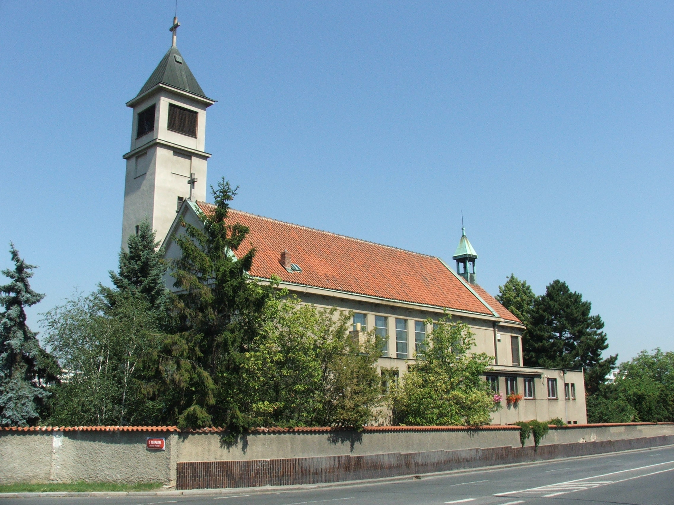 Church of Virgin Mary - Queen of Peace in Lhotka, Prague (Czechia). Built in 1937.